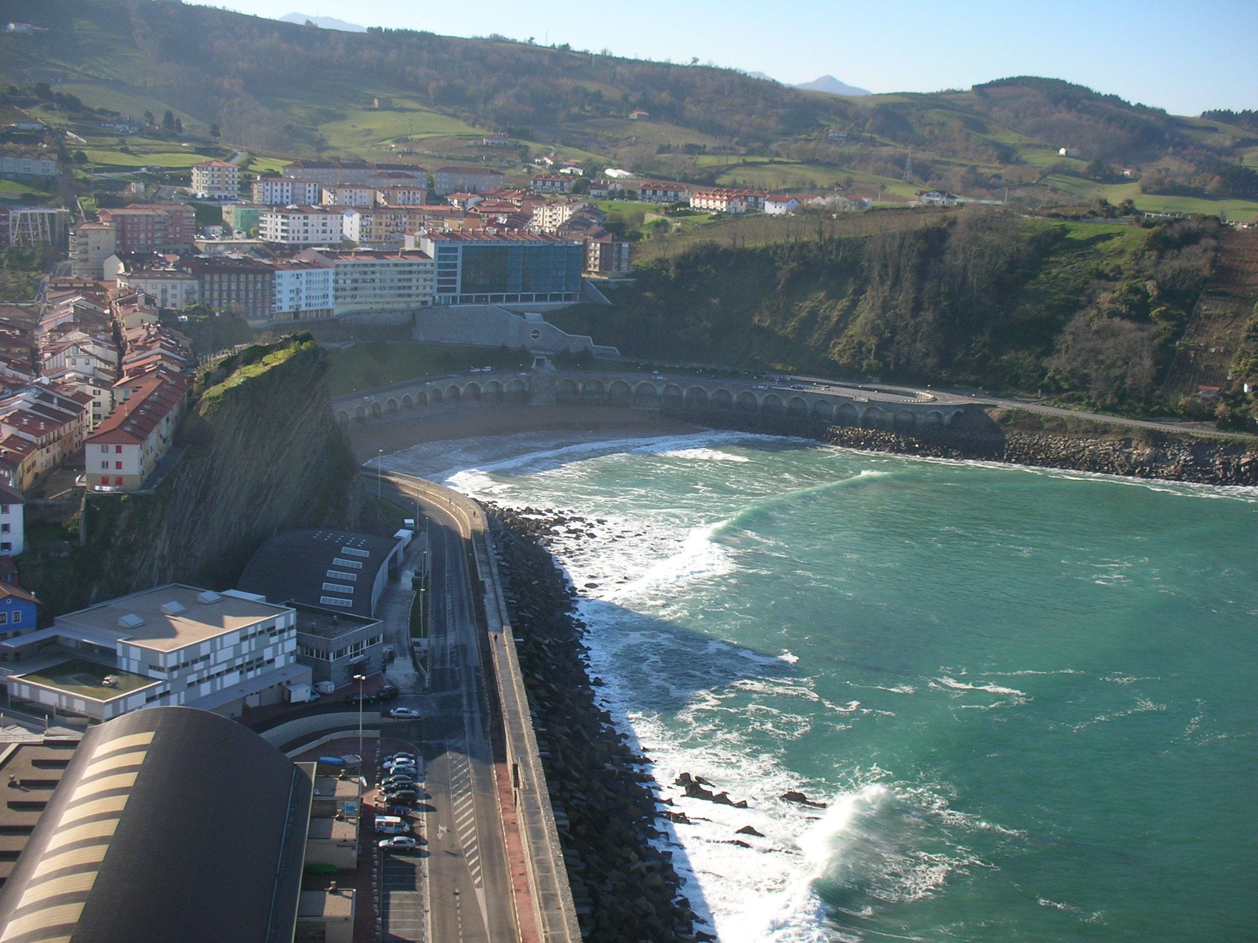 Gaztetape beach in Getaria, the Basque Country